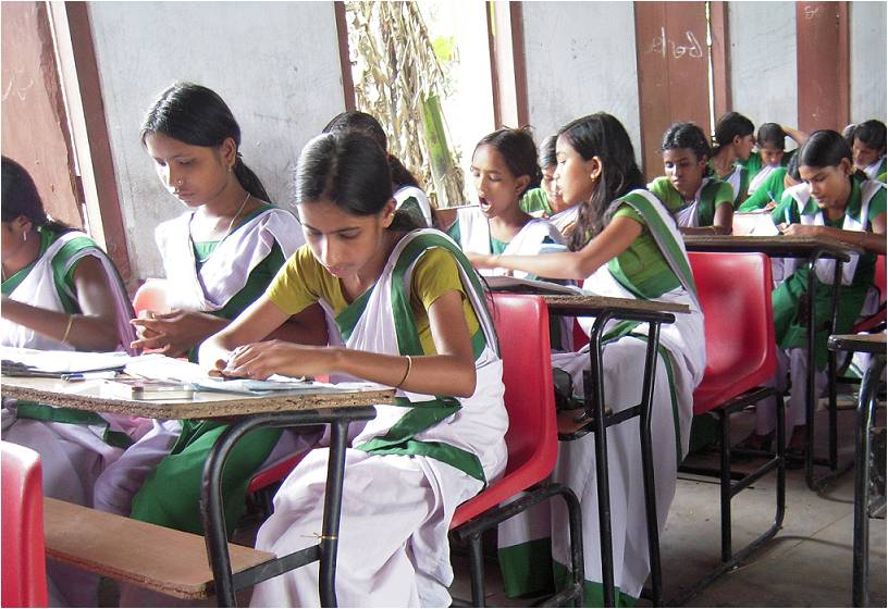 Students at the class room of Lakhiganj HS School